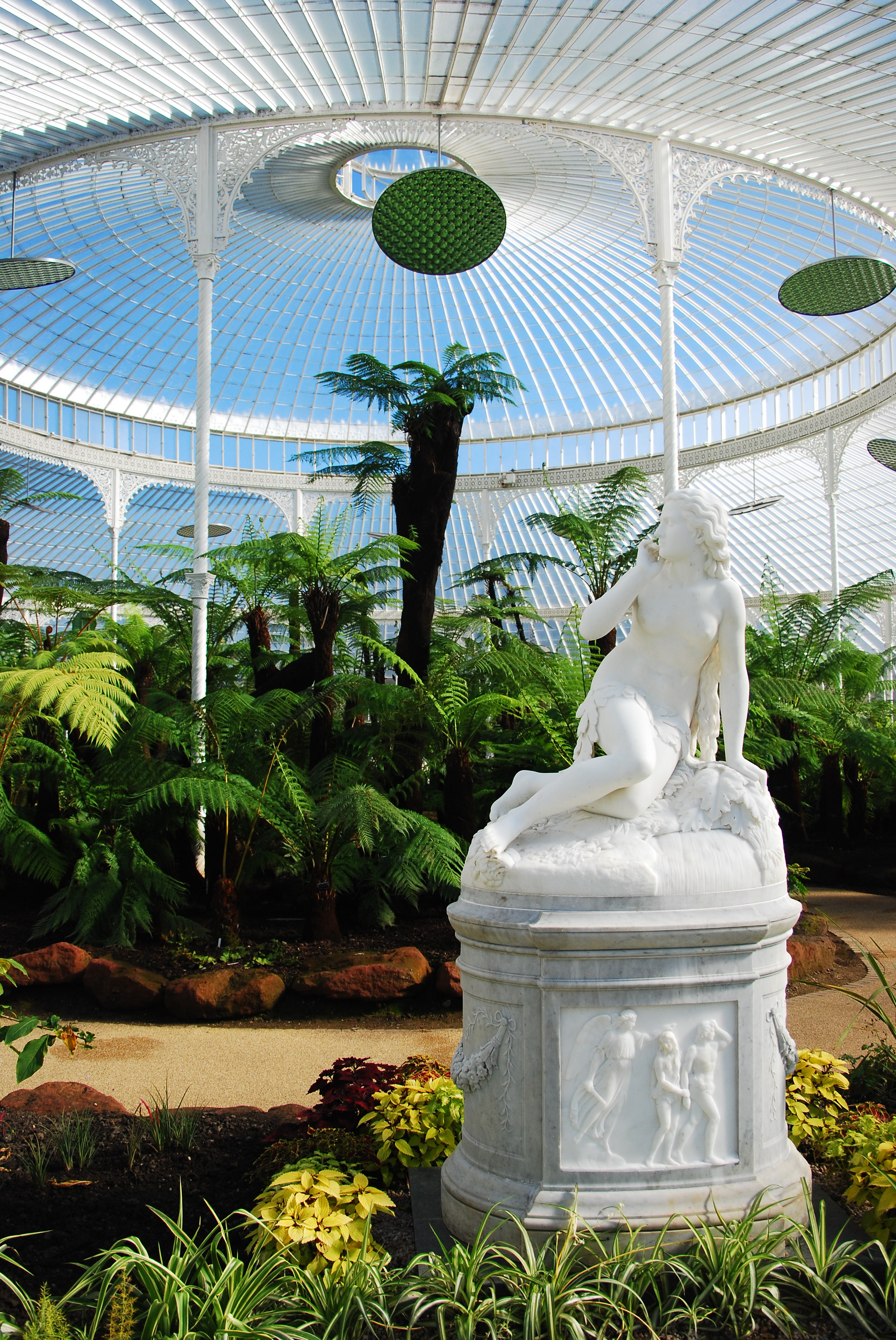 View from new restorated building